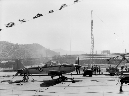 A view of the deck of Royal Navy aircraft carrier and maintenance ship HMS Unicorn (I72) dressed with flags to mark the 13th anniversary of the King George VI's Coronation. HMS Unicorn and HMAS Shoalhaven (K535), also in harbour, fired a simultaneous salute of 21 guns. On deck is a Supermarine Seafire Mk 47. This type was used operationally in Korea by 800 Squadron, RN, flying from the carrier HMS Triumph (R16) during 1950.